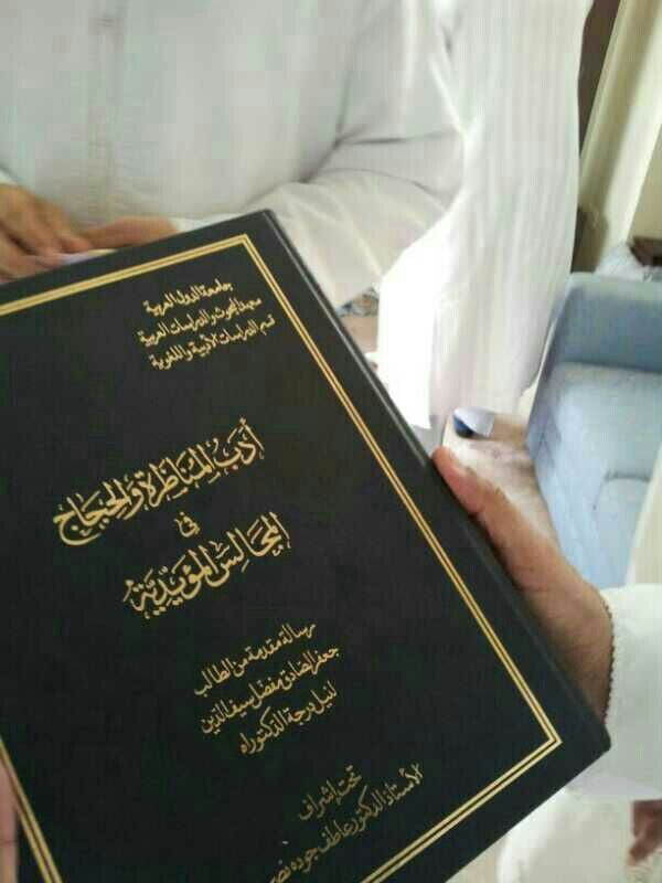 Jafar Sadiq Saifuddin Doctorate Thesis